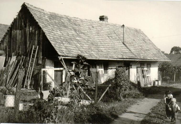 House with number 41 in village Bacalky. Old photography from year 1984.